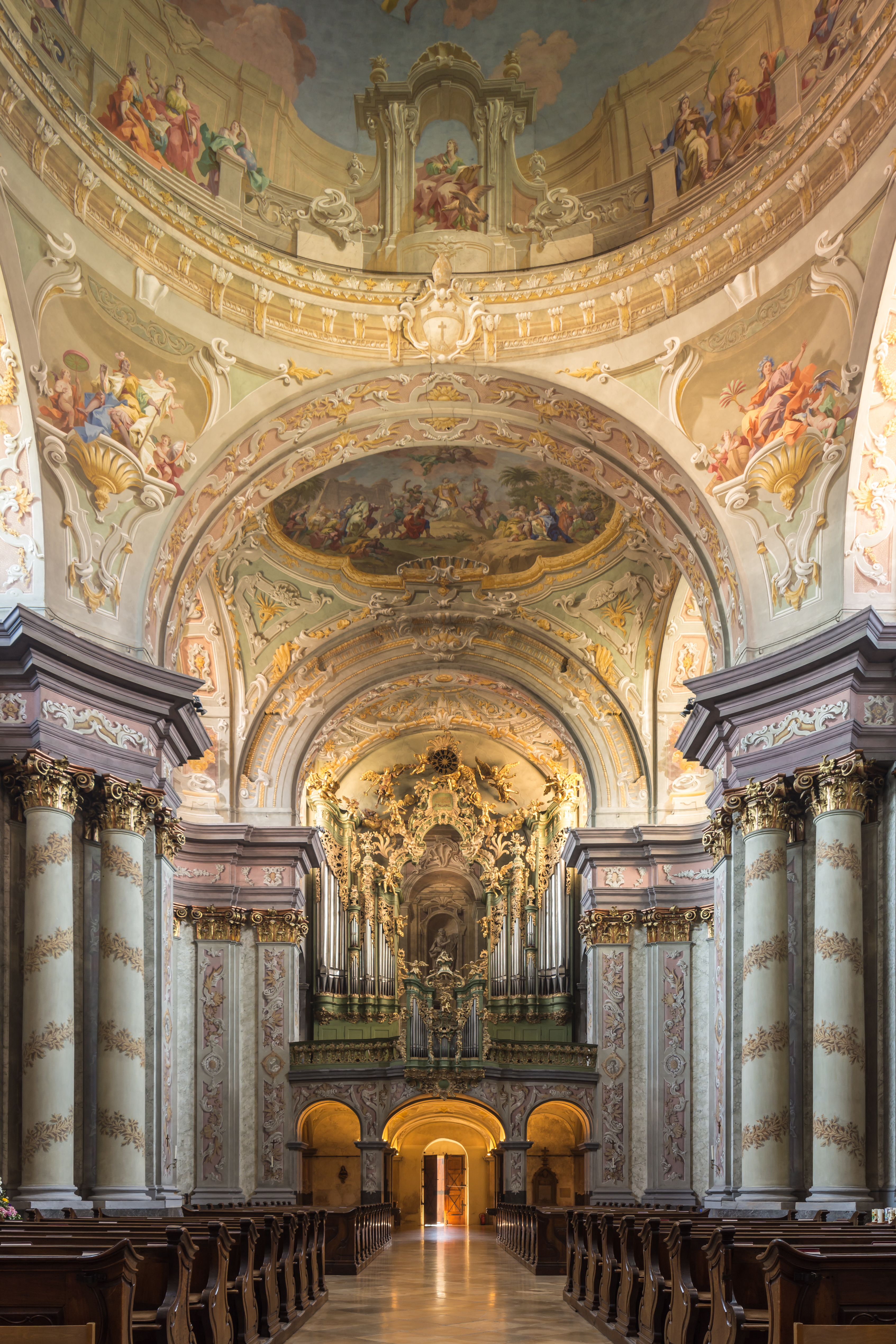 Organ of Herzogenburg Abbey church (Lower Austria) by Johann Hencke (1752)